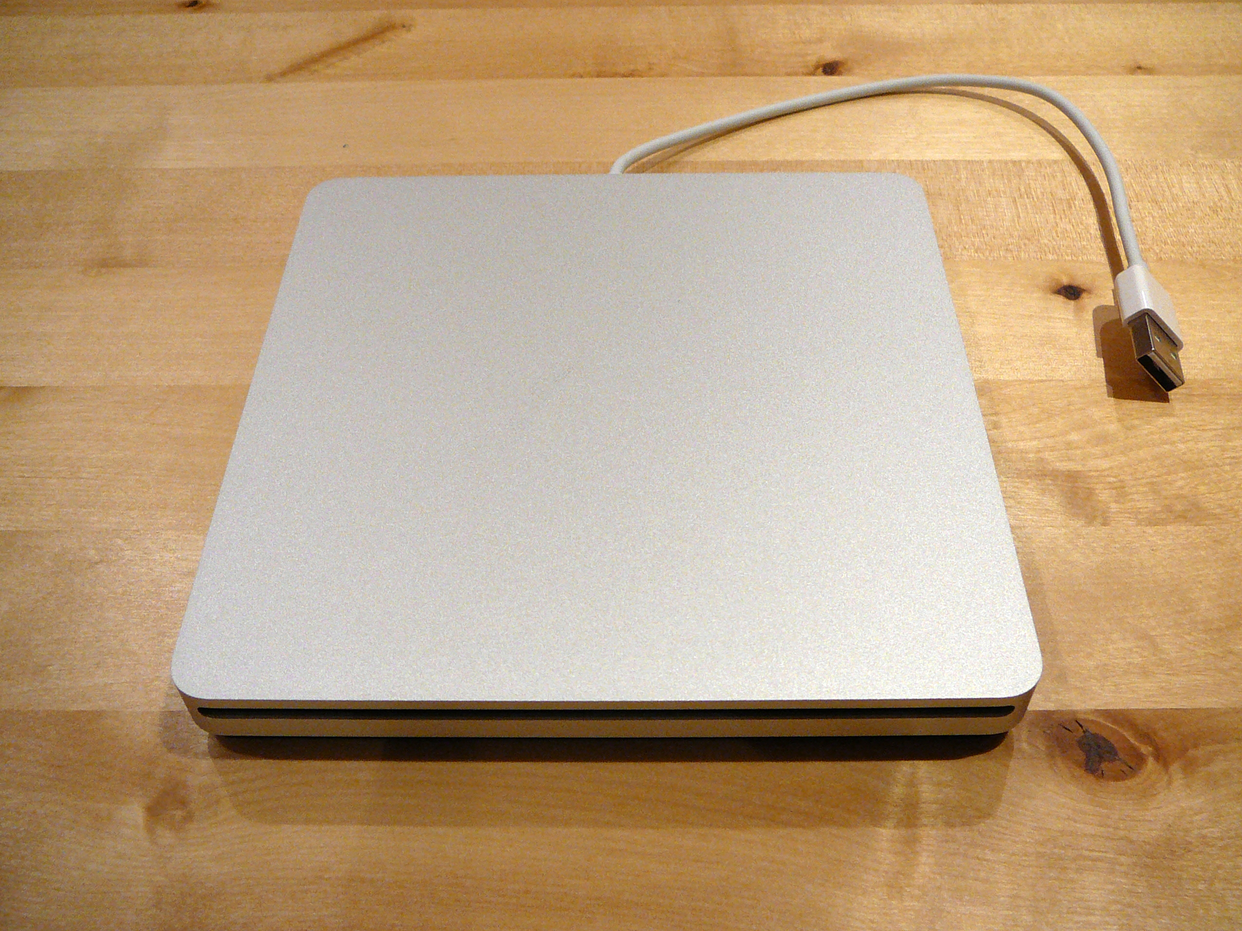 MacBook Air SuperDrive